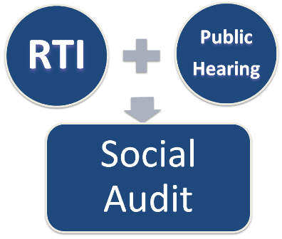 People 2013.10.26.6